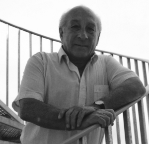 Norwegian Auschwitz survivor and Holocaust lecturer Julius Paltiel (Photo: André Savik)